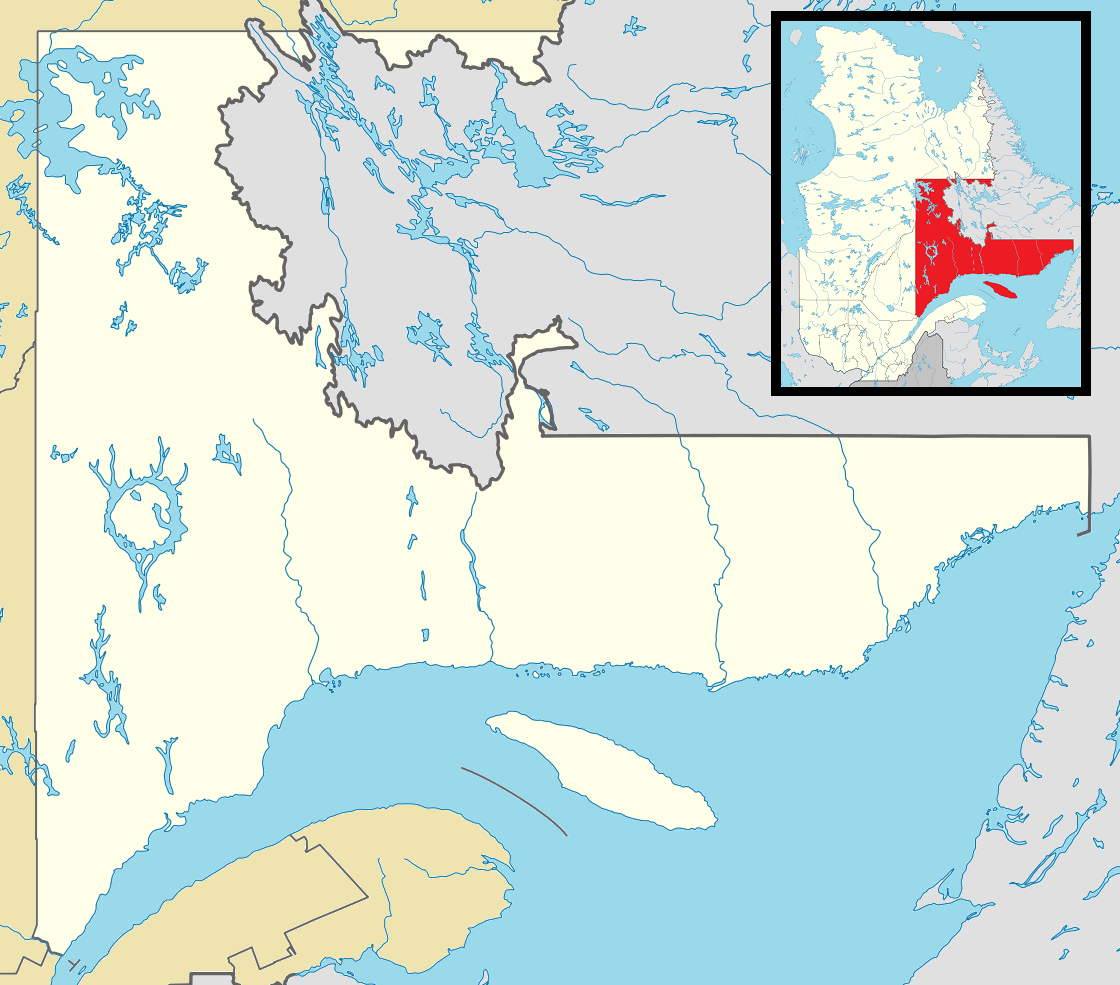 Map of Côte-Nord Region of Québec Province for use in location map templates